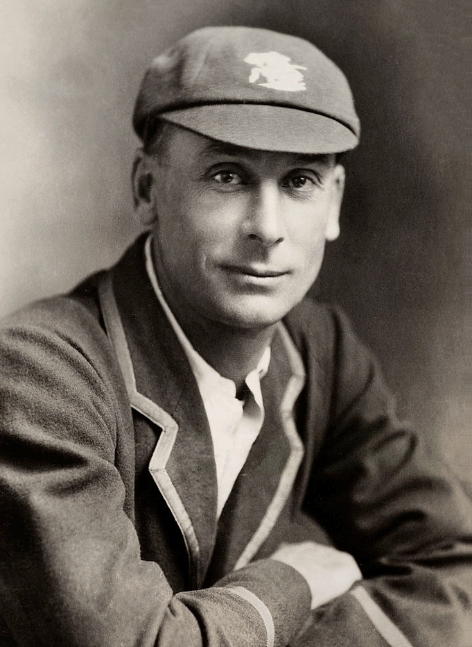 Jack Hobbs, Surrey County cricket club, wearing his MCC England cap and blazer, circa 1920.